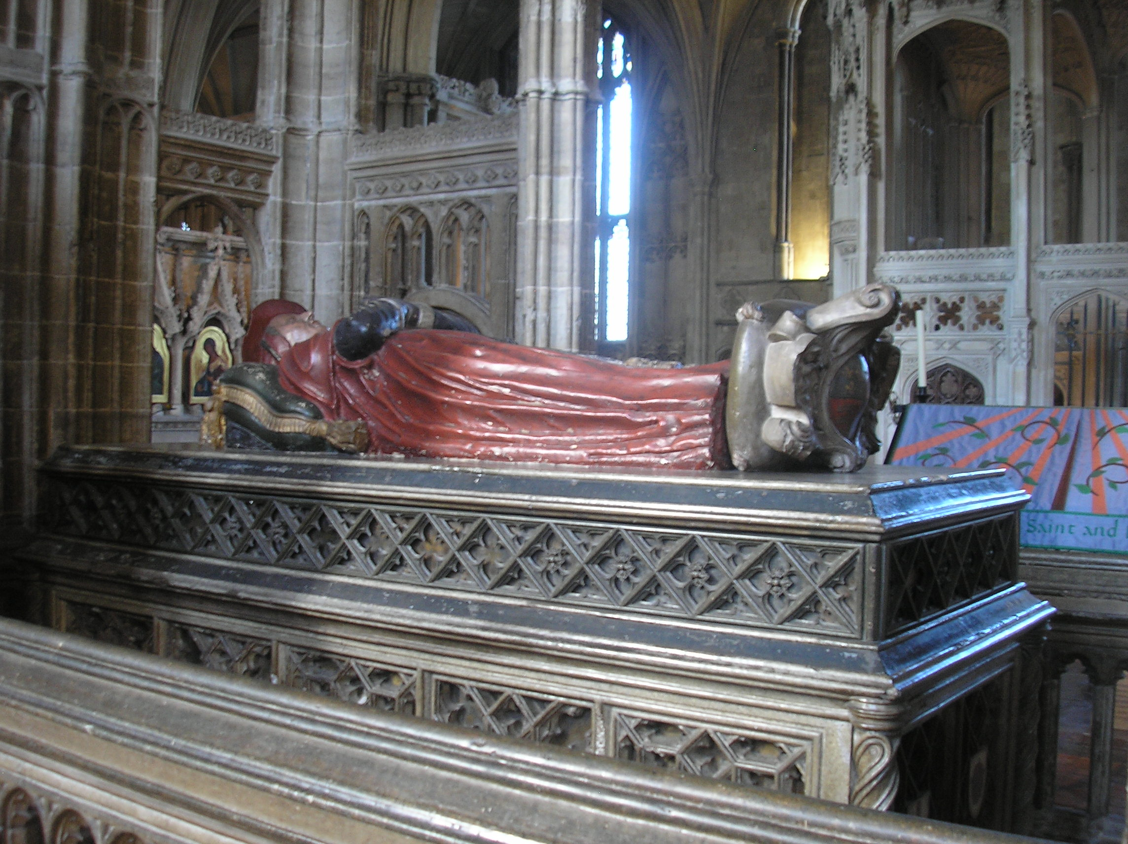 the tomb of Cardinal Beaufort in Winchester Cathedral